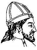 Wali Dakkhani's Illustrative portrait.